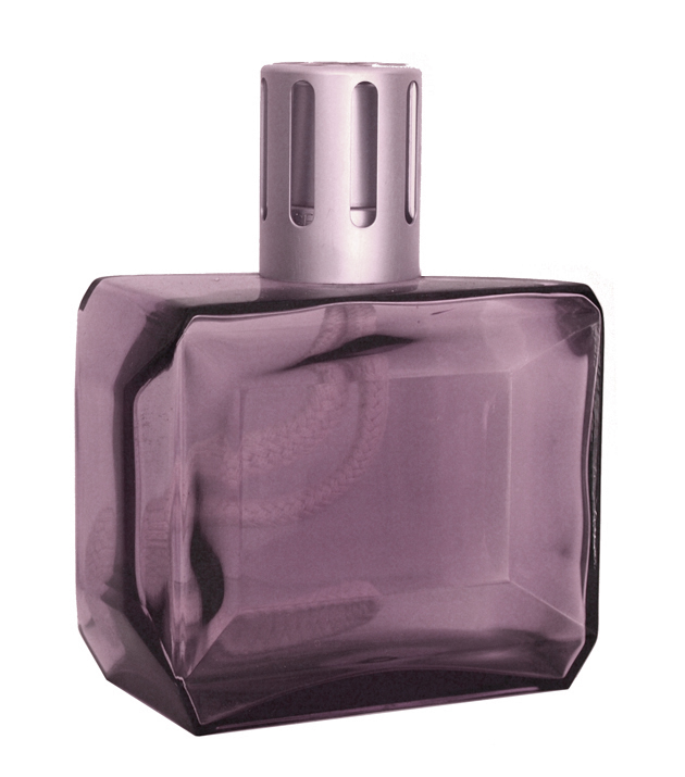 Lampe Berger "Carat Amethyste" about 2006